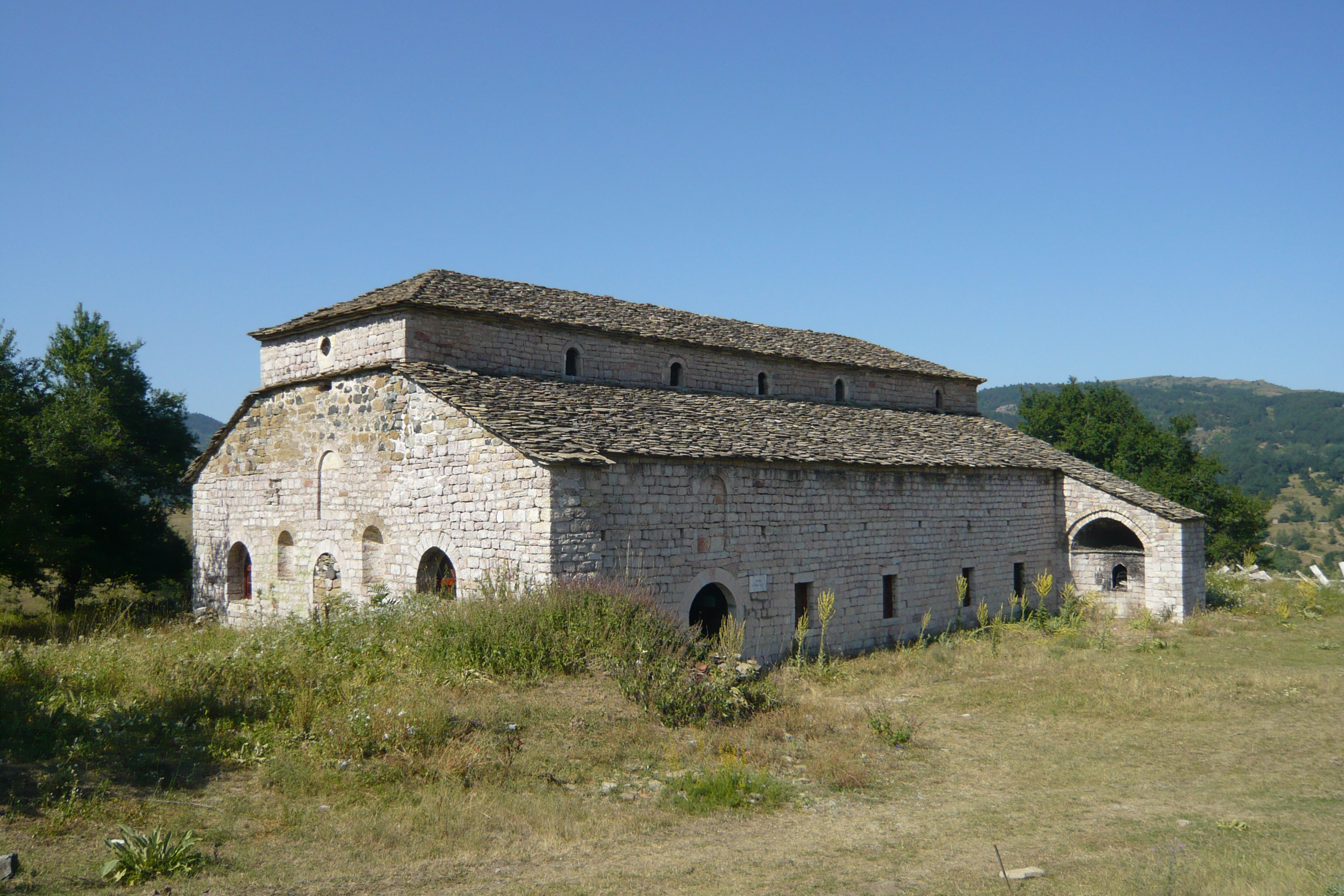 St. Elijah's Church, Voskopojë (Moscopole)